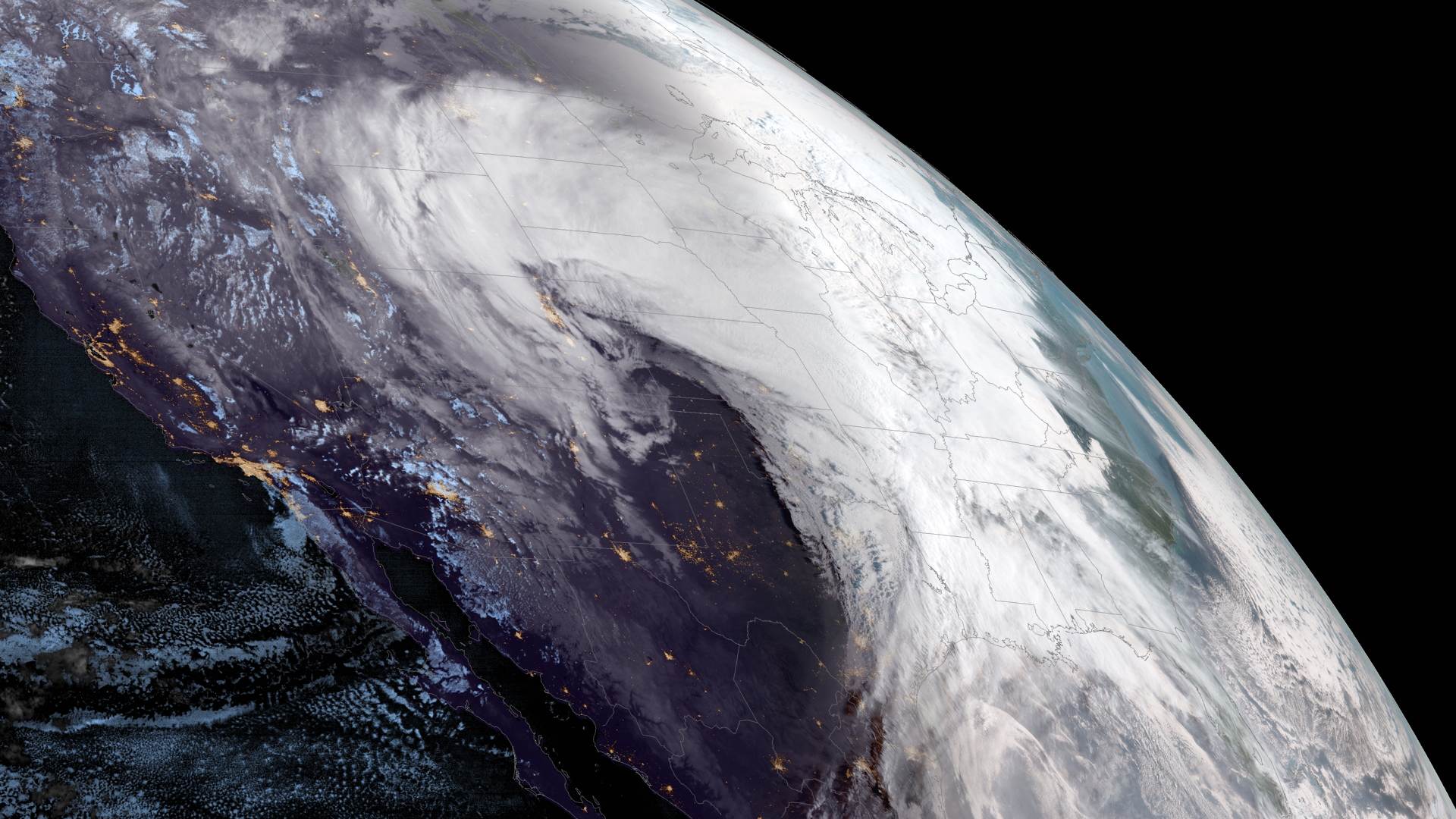 NOAA’s GOES West satellite captured this GeoColor limb view of the powerful winter storm system that’s expected to intensify Wednesday, March 13, 2019, before sweeping eastward across much of the Central U.S. Blizzard warnings are already in effect from northeastern Colorado into southeastern Wyoming and across western Nebraska and southwestern South Dakota, according to the National Weather Service Weather Prediction Center (WPC). Heavy rains, severe thunderstorms, isolated flooding, heavy snow and blizzard conditions associated with this storm could lead to “extremely dangerous” travel conditions. In the areas mentioned above, the WPC warns that visibility will drop to near zero during the height of the storm. “You risk becoming stranded if you attempt to travel through these conditions,” the WPC tweeted. As of 11:16 a.m. 1,417 flights within, into or out of the United States were canceled, according to . Denver International Airport and Dallas-Fort Worth International Airport were among the airports most affected by the impending storm with more than 1,000 and nearly 140 cancellations respectively. Parts of the southern and central High Plains, which are on the southern side of this storm, are expected to experience very high winds with sustained speeds of up to 30-40 mph and gusts of over 60 mph. This GeoColor enhanced imagery was created by NOAA's partners at the Cooperative Institute for Research in the Atmosphere. The GOES West satellite, also known as GOES-17, provides geostationary satellite coverage of the Western Hemisphere, including the United States, the Pacific Ocean, Alaska and Hawaii. First launched in March 2018, the satellite became fully operational in February 2019.